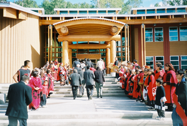 Ceremonial procession during the dedication of the building.